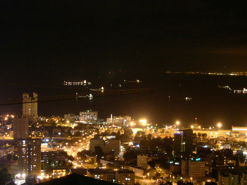 Downtown Haifa: To the left, farthest buildings before the sea, the "Rambam" Hospital and the medicine school; Black area - Haifa bay, with ships anchoring in it. Top-right - lights of the Qrayot, Haifa's suburbs. The intensly-lit area to the right is the Haifa port.